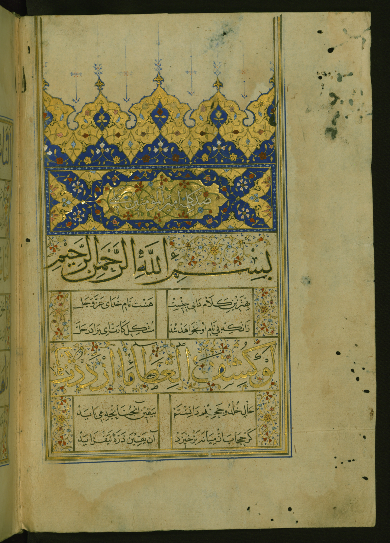 This opening decorated page from Walters manuscript W.615 has an illuminated headpiece with the title of the work in Tawqi script executed in white ink on a gold background. The text begins with the doxological formula (basmalah) in black Muhaqqaq script outlined in gold, followed by two Persian verses in black Naskh script. Following is an Arabic line written in gold Thuluth script outlined in black. The Arabic text is again followed by two Persian verses inscribed in black Naskh.